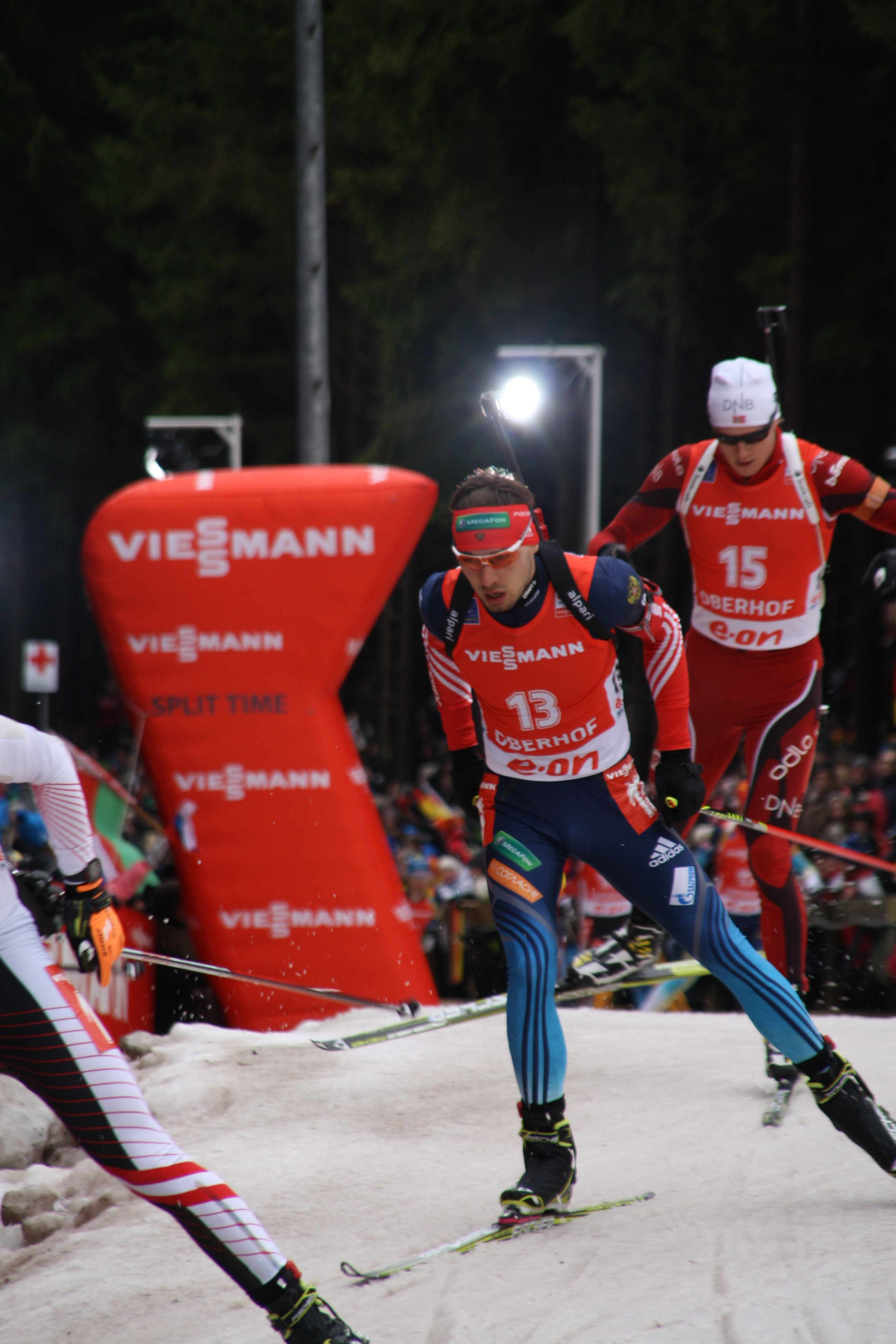 Biathlon World Cup Oberhof 2014 - Mens Pursuit